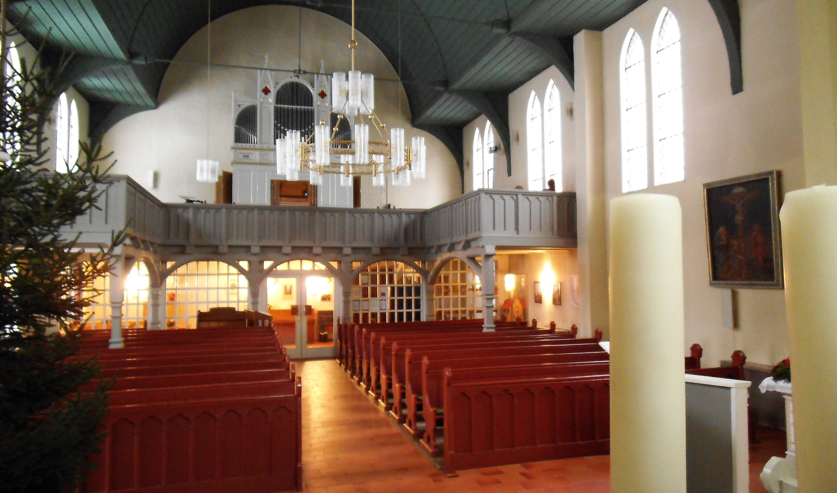 Ev.-luth. Kirche St. Benedictus, Sieber, Herzberg am Harz.